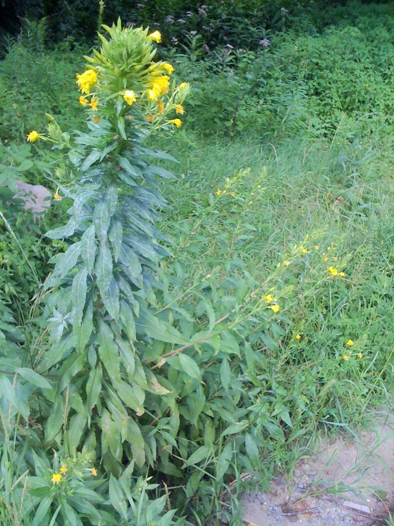 Aussi appelée Belle de Nuit. Trouvée sur le Chemin de Mille-Isles. Young roots can be eaten like a vegetable (with a peppery flavor), or the shoots can be eaten as a salad. The whole plant was used to prepare an infusion with astringent and sedative properties. It was considered to be effective in healing asthmatic coughs, gastro-intestinal disorders, whooping cough and as a sedative pain-killer. Poultices containing O. biennis were at one time used to ease bruises and speed wound healing. One of the common names for Oenothera, "Kings cureall", reflects the wide range of healing powers ascribed to this plant, although it should be noted that its efficacy for these purposes has not been demonstrated in clinical trials. The mature seeds contain approximately 7-10% gamma-linolenic acid, a rare essential fatty acid. The oil also contains around 70% linoleic acid[11]. The O. biennis seed oil is used to reduce the pains of premenstrual stress syndrome. Gamma-linolenic acid also shows promise against breast cancer.[12]